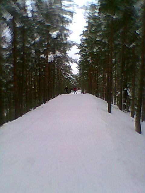 Cross country skiing in Säkylä, Finland